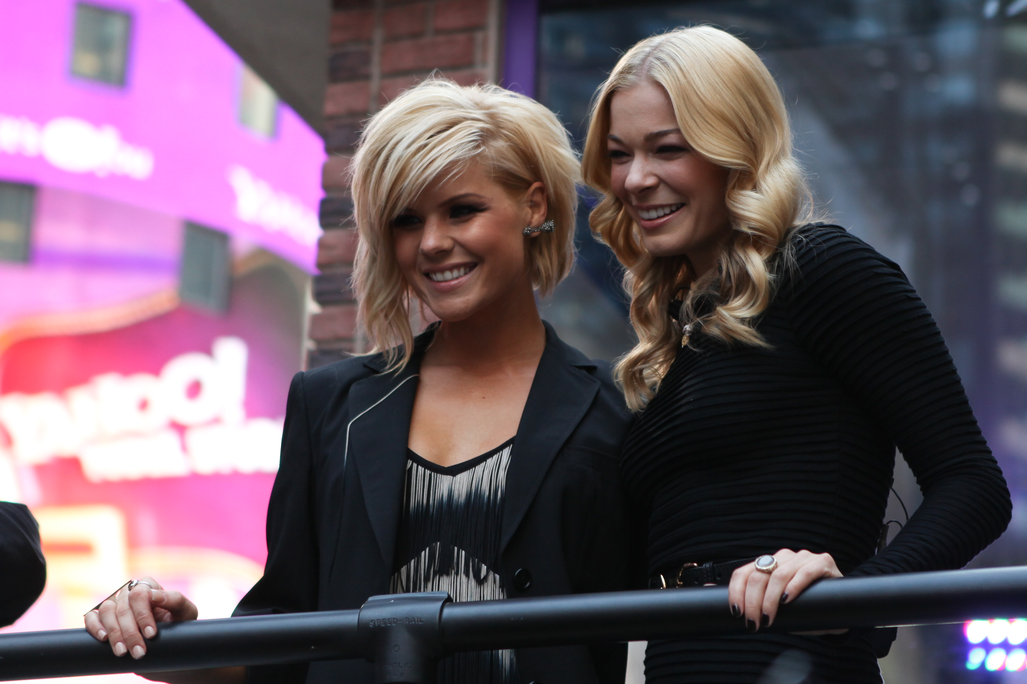 Kimberly Caldwell with LeAnn Rimes